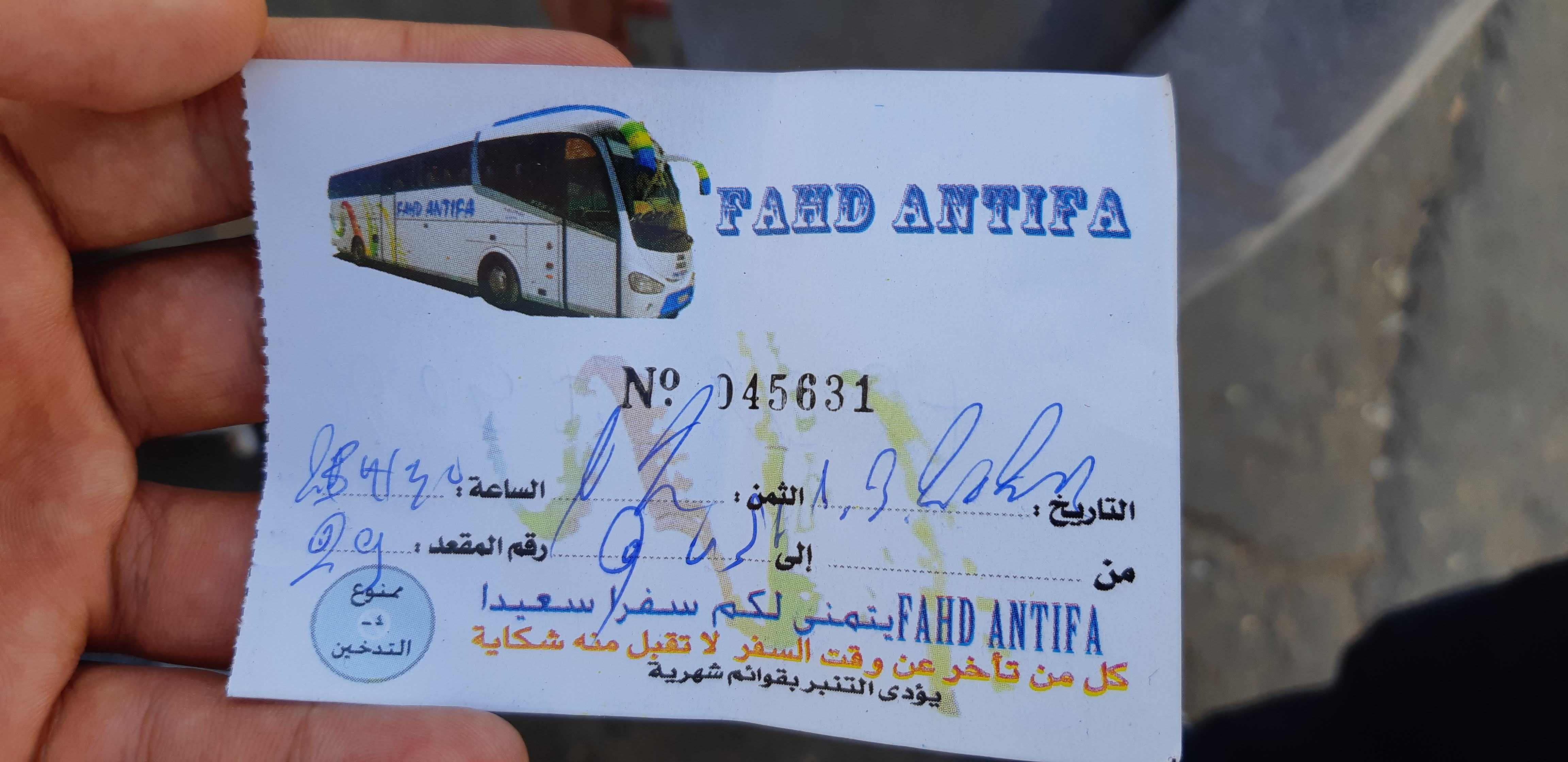 Intercity bus ticket Inezgane 2020 This is an image with the theme "Africa on the Move or Transport" from: Morocco